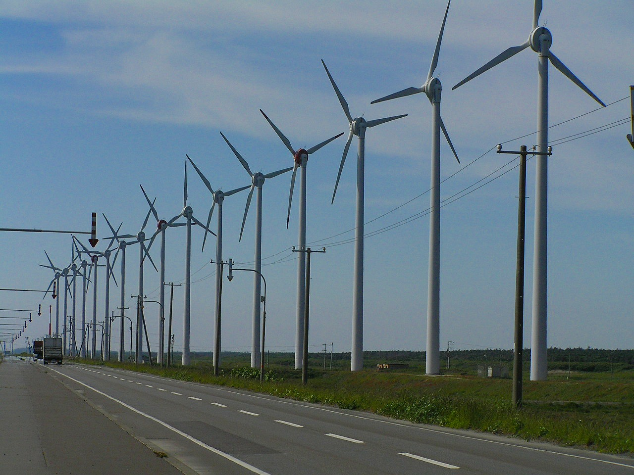 Electricity generating turbines in Hokkaido